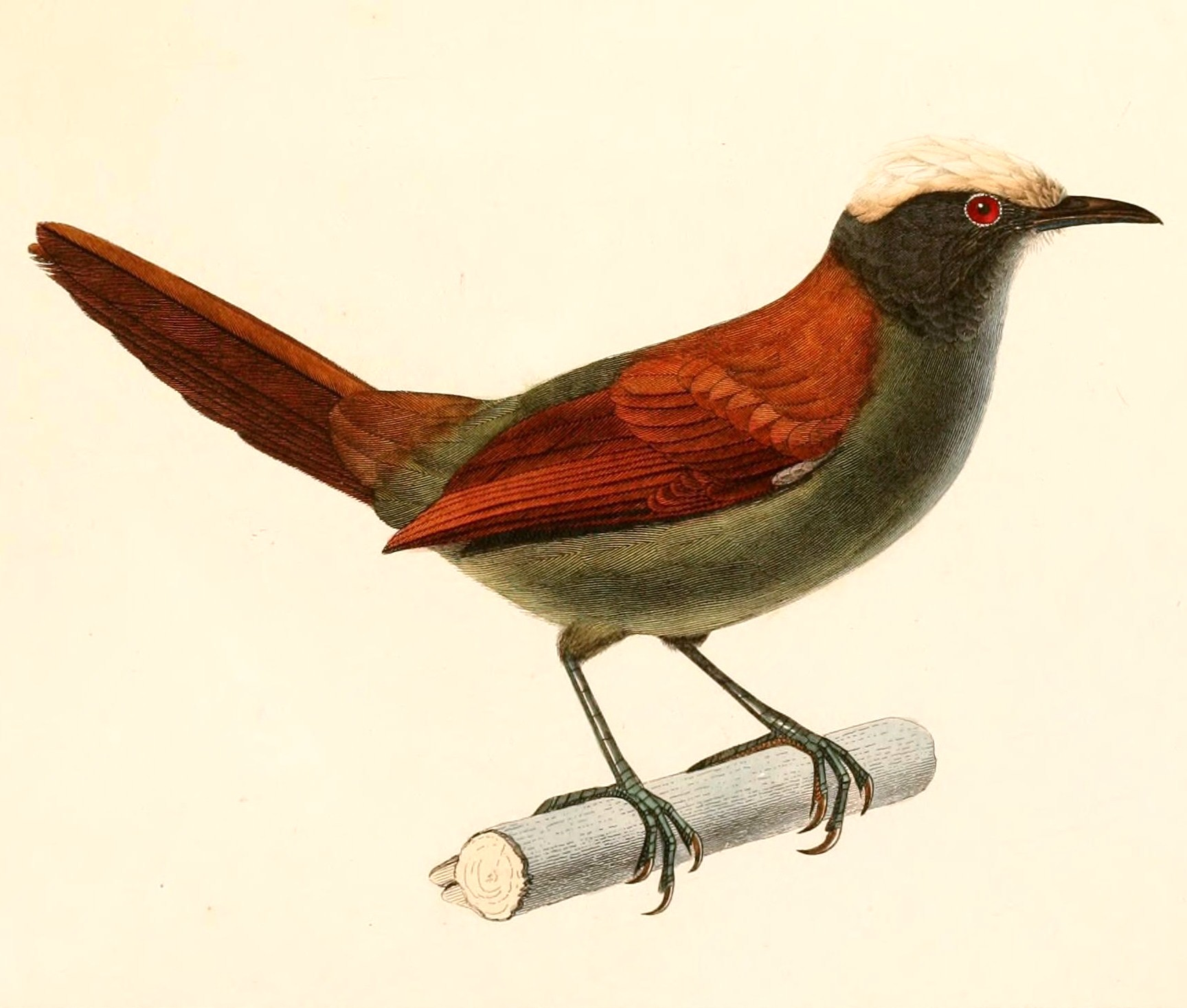 « Synallaxis albiceps » = Cranioleuca albiceps (Light-crowned Spinetail)